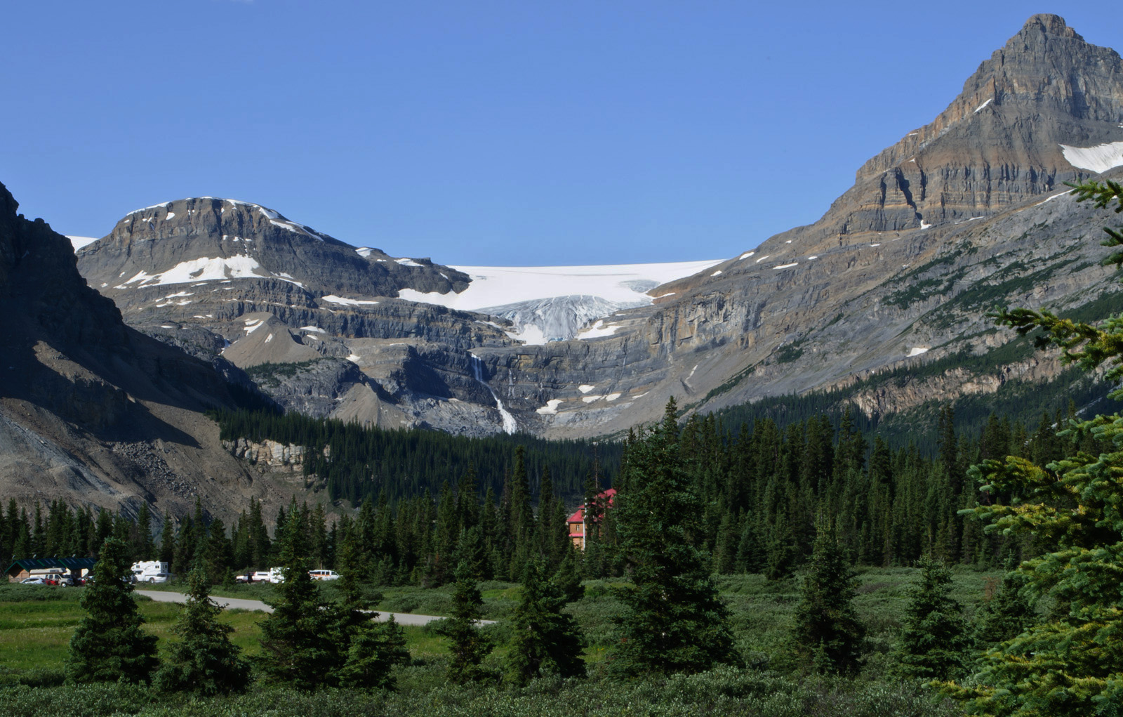 Lovely alpine scenery that is typical of what's visible from Icefields Parkway, which connects Banff and Jasper National Parks.